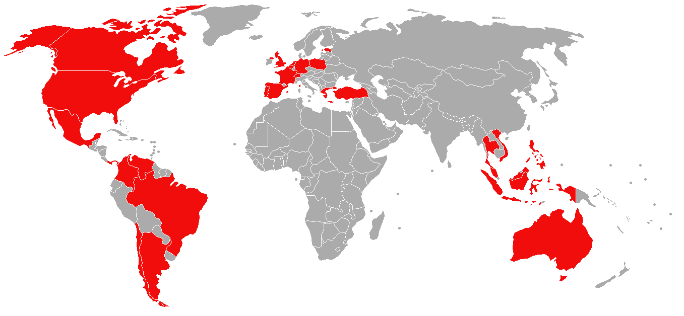 Countries which have their own versions of the TV show Family Feud